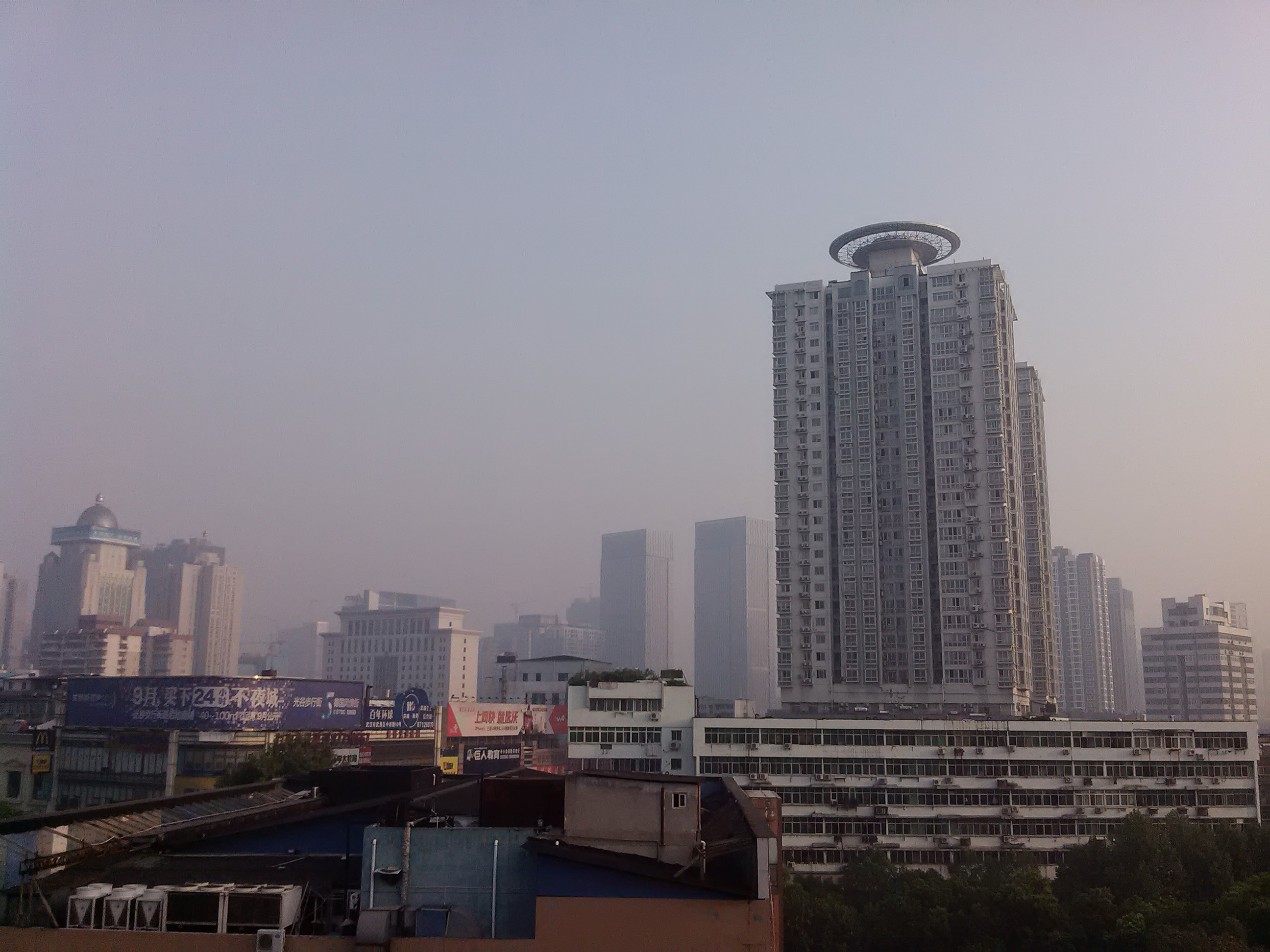 Architectures near Shuiguohu Children's Park